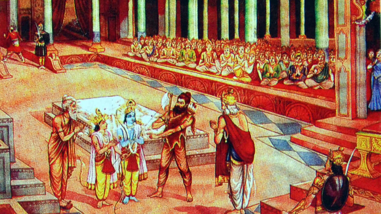 Art on a page of Sribhargavaraghaviyam